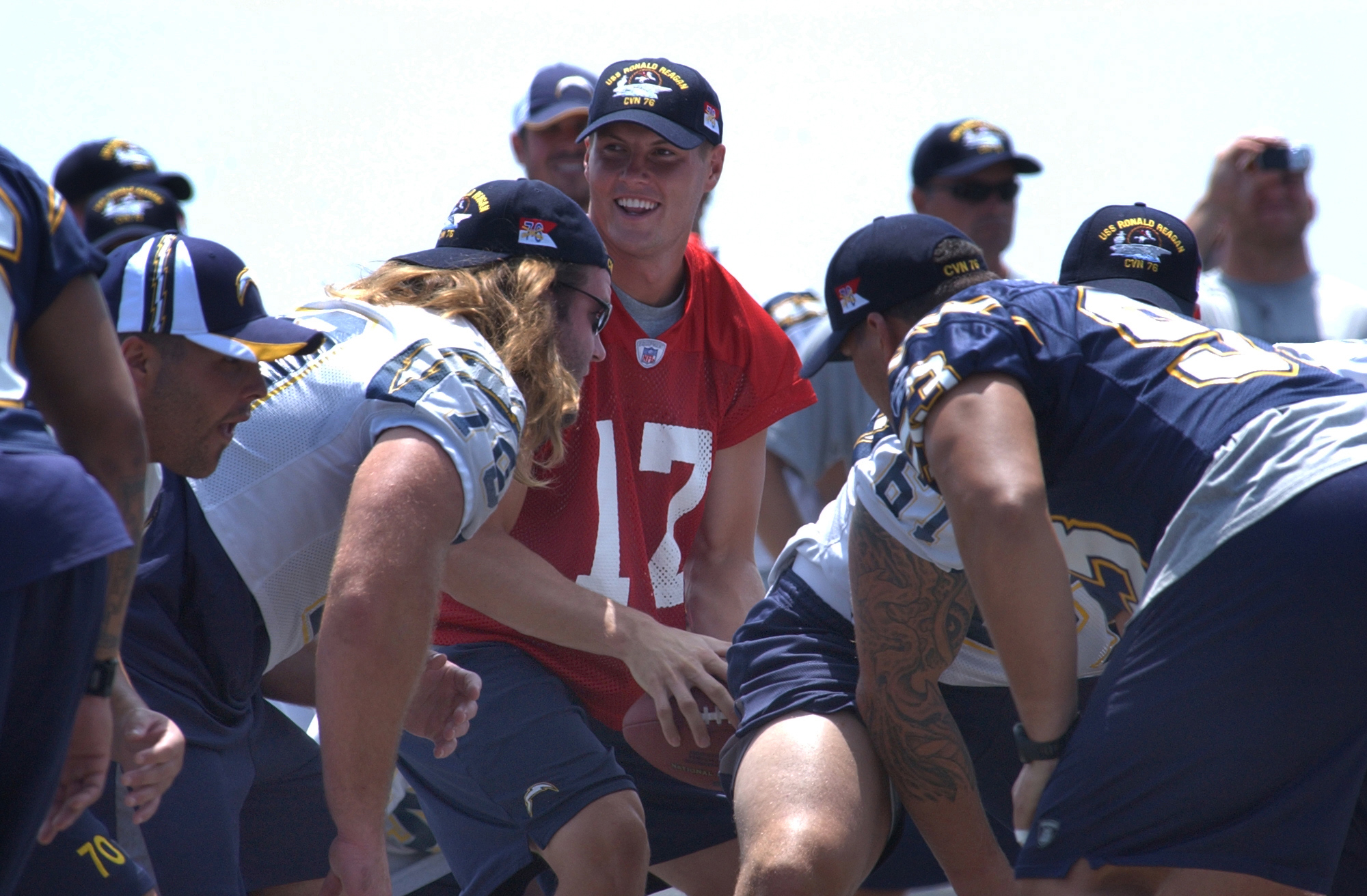 Starting Quarterback for the National Football League (NFL) San Diego Chargers, Philip Rivers (17), takes the snap from Center, Nick Hardwick (61), during a light practice on the flight deck aboard USS Ronald Reagan (CVN 76). The Chargers held practice aboard the Navy's newest nuclear powered aircraft carrier in preparation for their first pre-season game against the Green Bay Packers, August 12. During pre-game ceremonies, a military appreciation game will involve Ronald Reagan Sailors and the unfurling of a giant American display flag. Ronald Reagan is currently pier side at her homeport of San Diego after returning from its maiden deployment in July 2006.